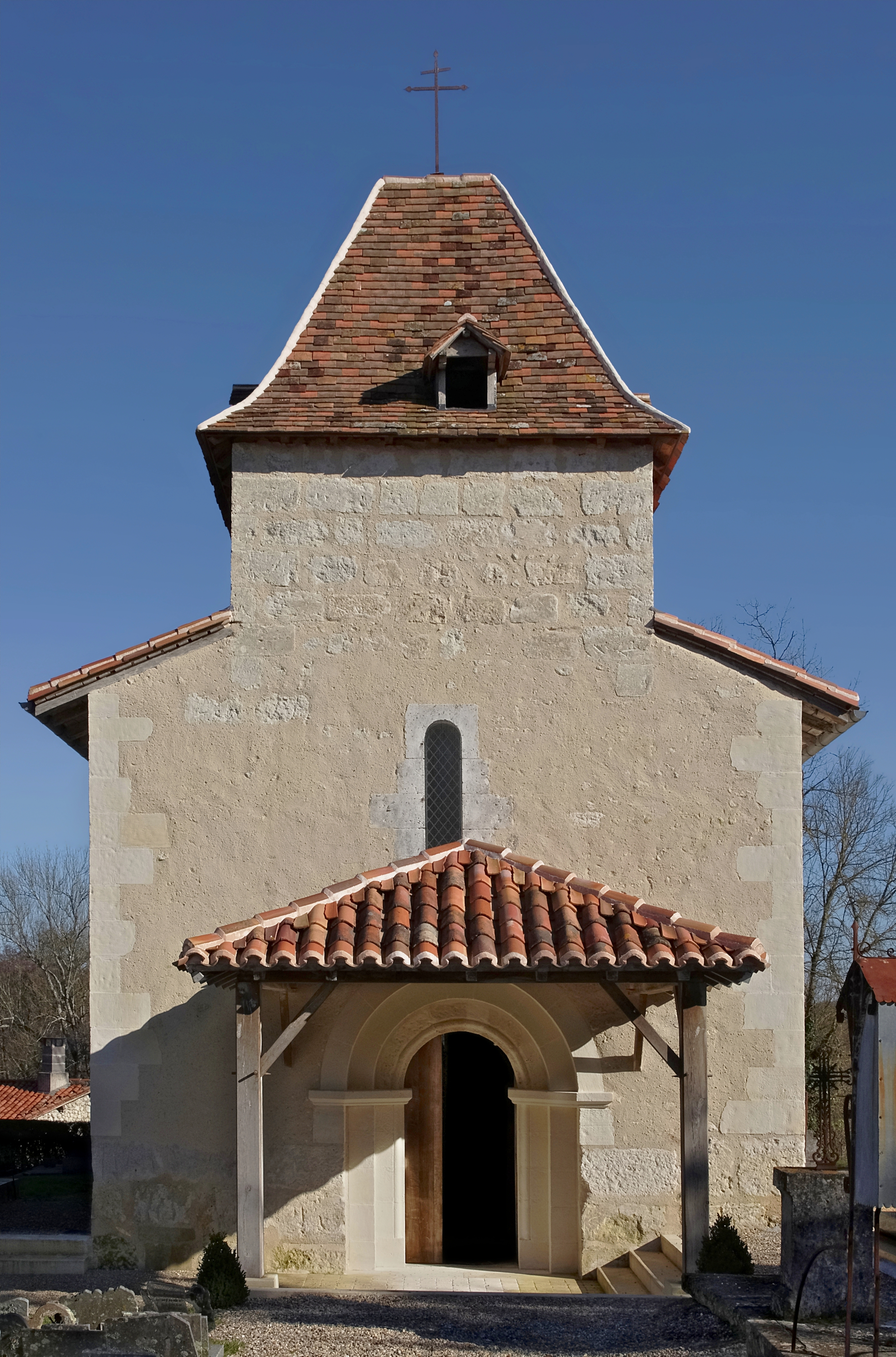 Recently renewed Church (12th and 15th centuries), Nabinaud, Charente, France.